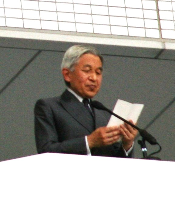 World Athletics Championships 2007 in Osaka - Japan's Emperor Akihito speaking the opening formula